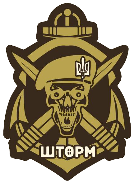 Ukrainian interior ministry's special battalion «Shtorm» emblem.